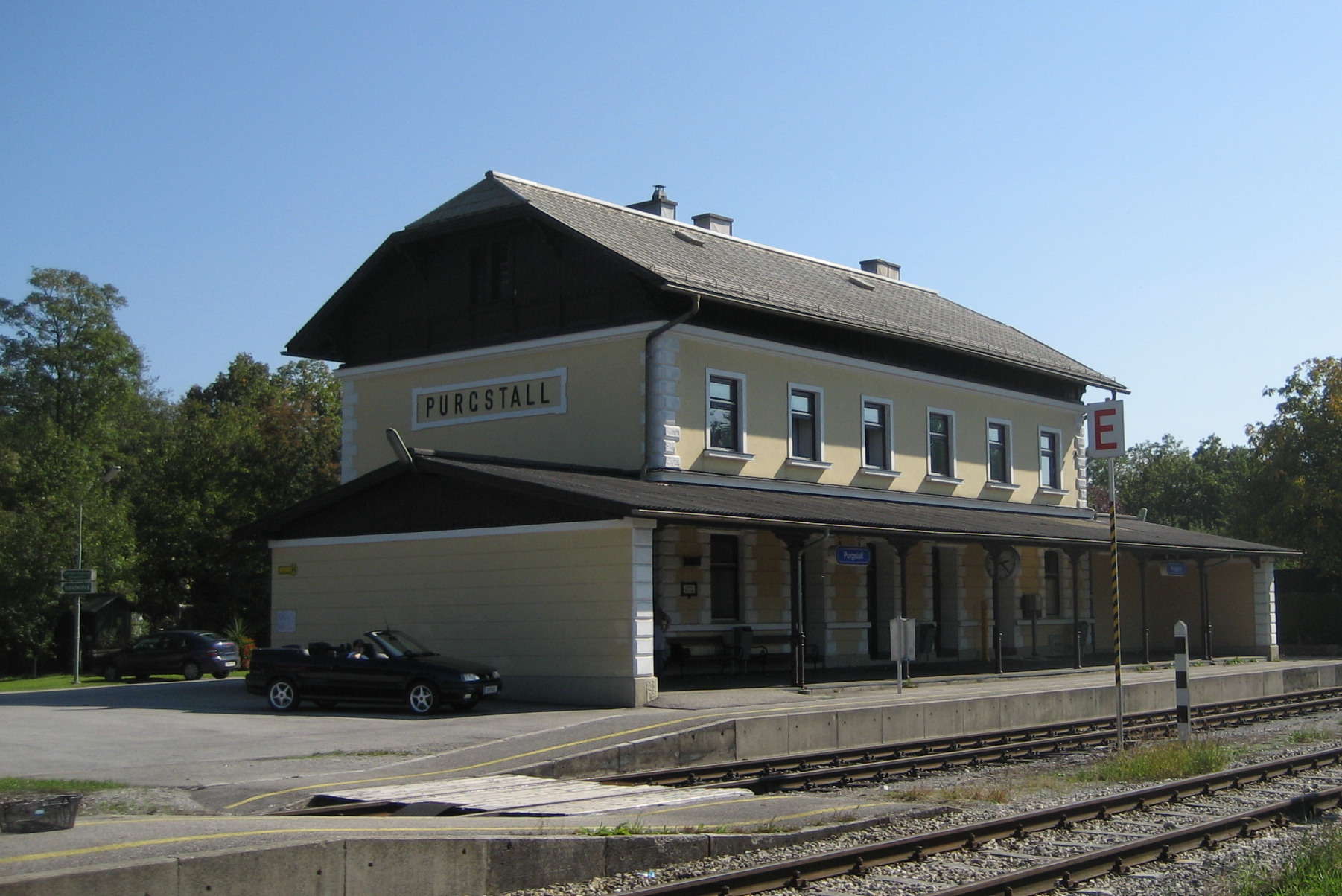 Purgstall train station in Lower Austria